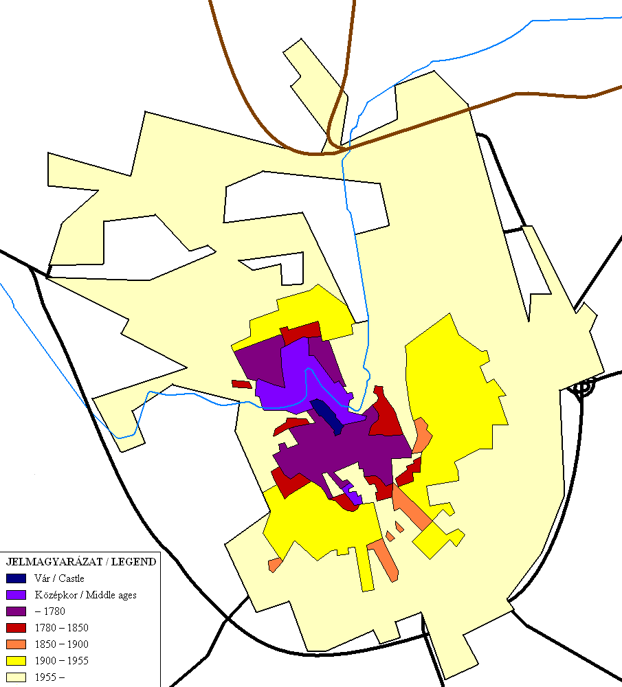 Territorial growth of Veszprém